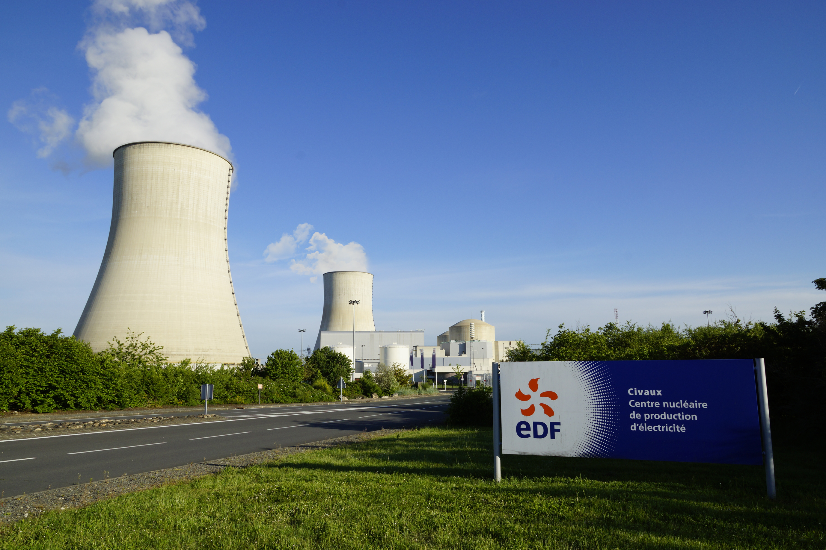 Civaux nuclear plant entrance